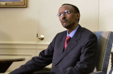 President Paul Kagame of Rwanda